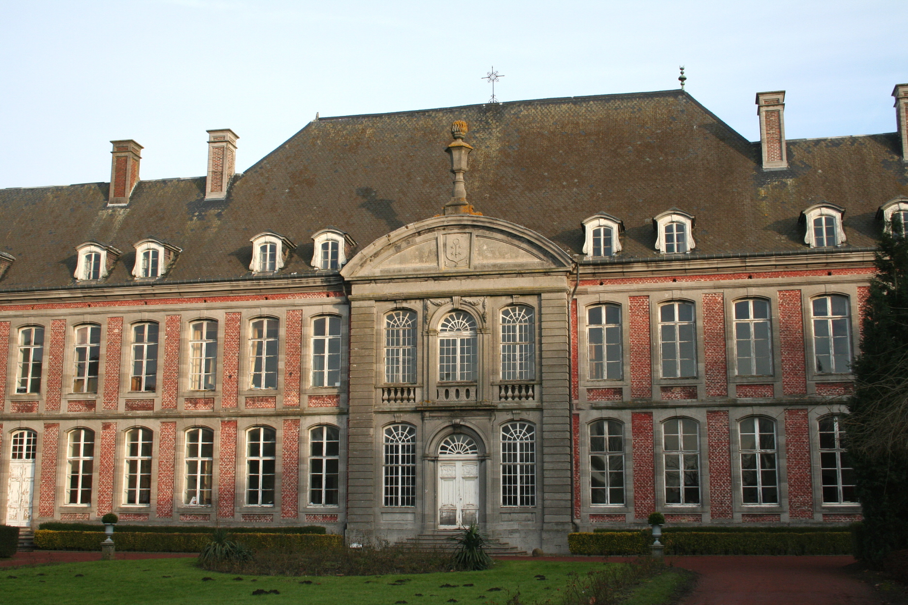 Vellereille-les-Brayeux (Belgium), Main building façade of the Bonne Espérance abbey (XVIIIth centuries).